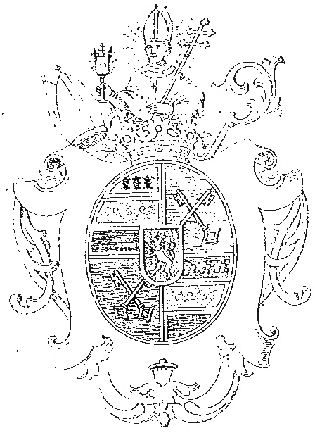 Coat of arms of Strahov Monastery (Prague, Czech Republic)